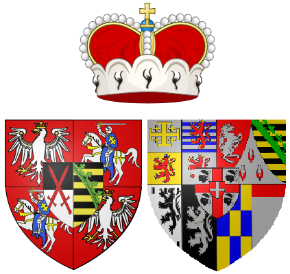 Coat of arms of Maria Carolina of Savoy as a princess of Saxony